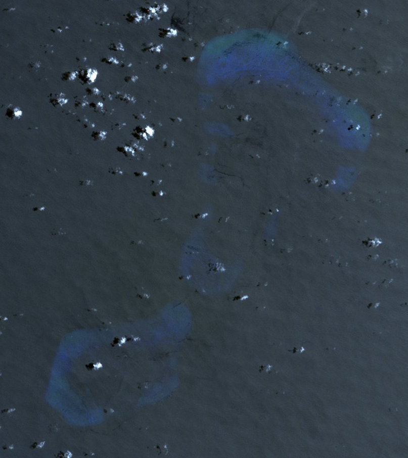 Lys Shoal and Trident Shoal are two submerged atolls of Spratly Islands.